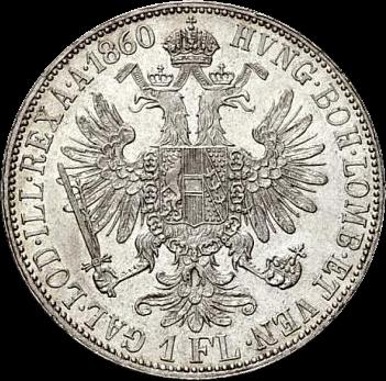 1 Gulden österreichischer Währung (1860, Vienna), reverse